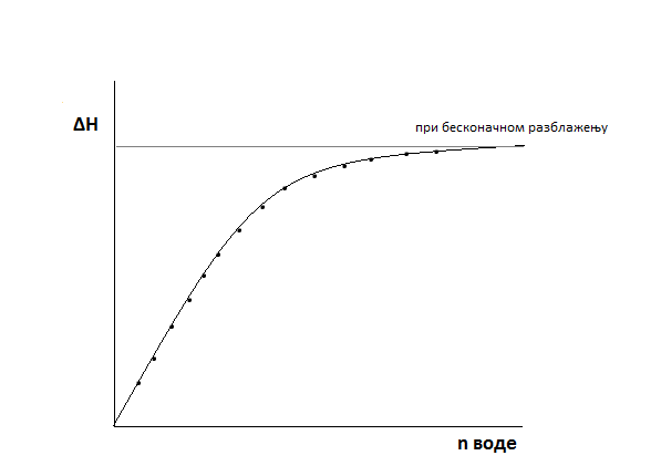 Graphic